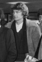 Players of RC Strasbourg